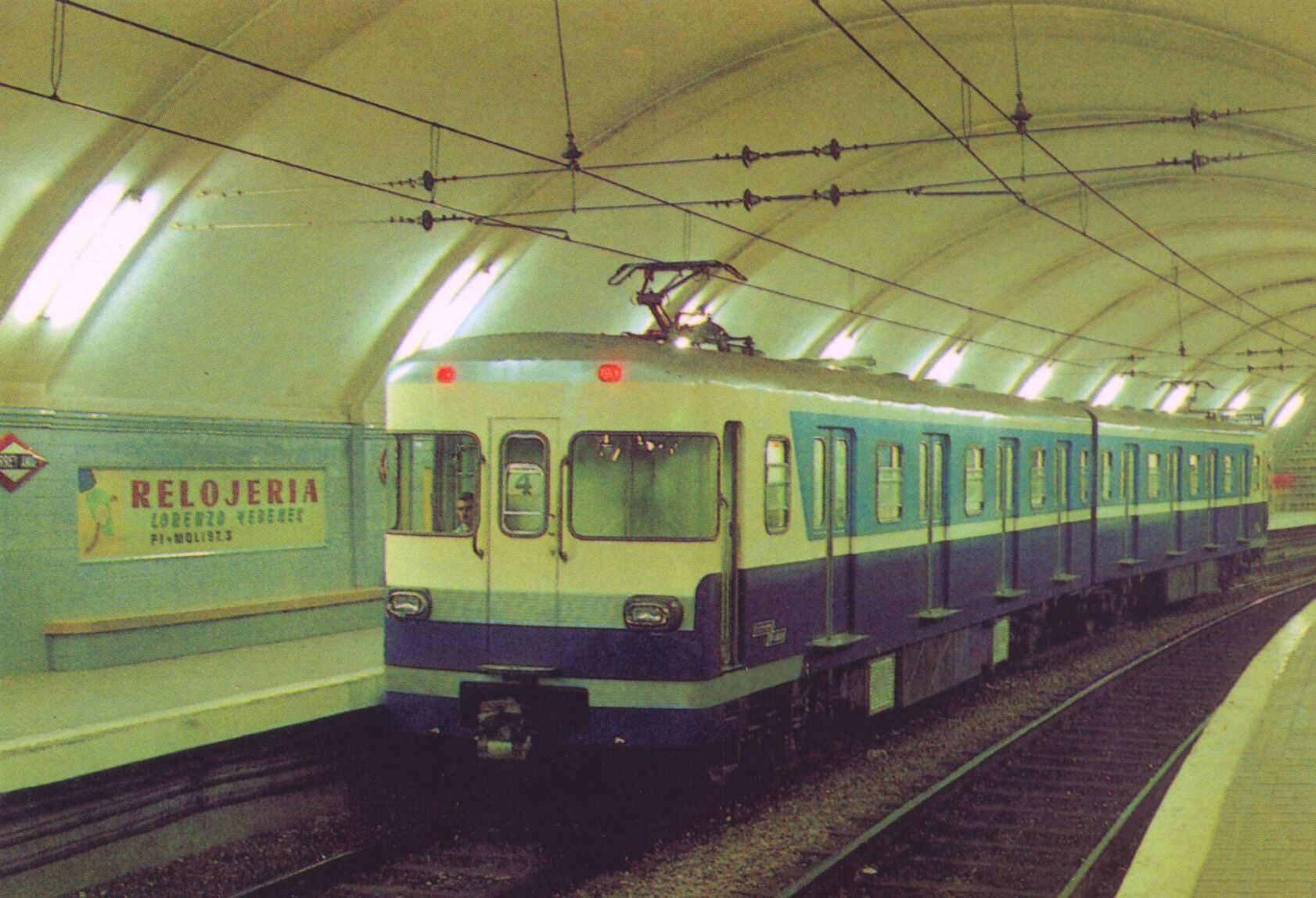 A train of Barcelona's underground at Virrei Amat (Line 5), 1971